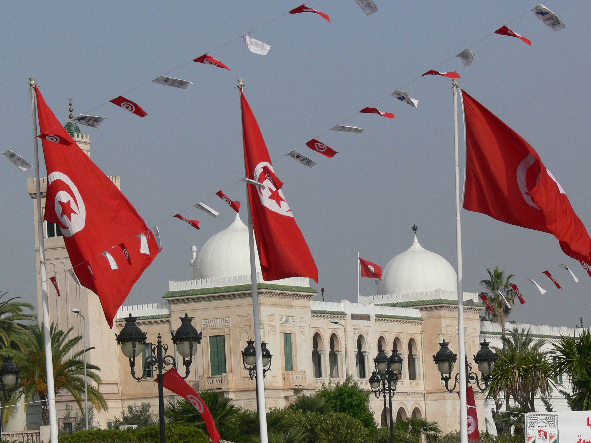 These are some government buildings in Tunis, the capital city of Tunisia.